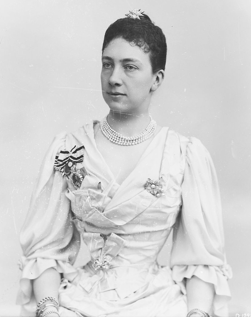 Portrait photo of queen Victoria of Baden in 1882.